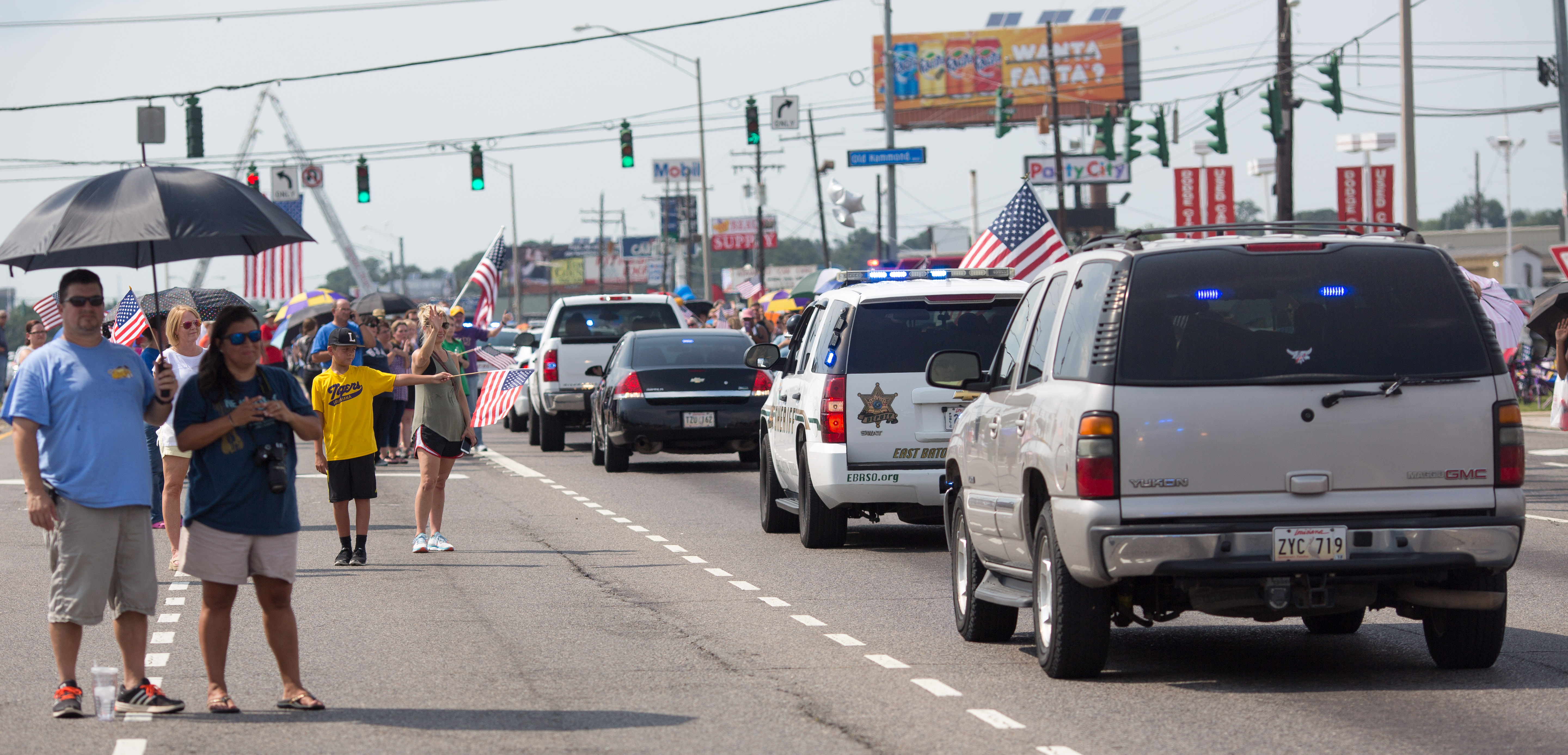 July 23 funeral for one of the police officers shot and killed in Baton Rouge earlier in July